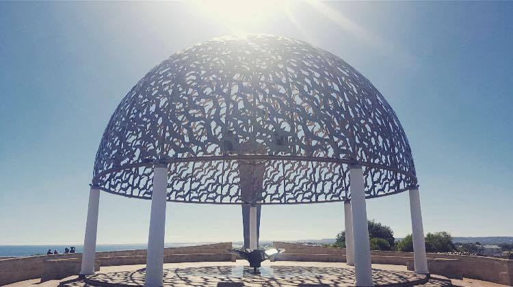 Seagulls representing the 645 lost souls.